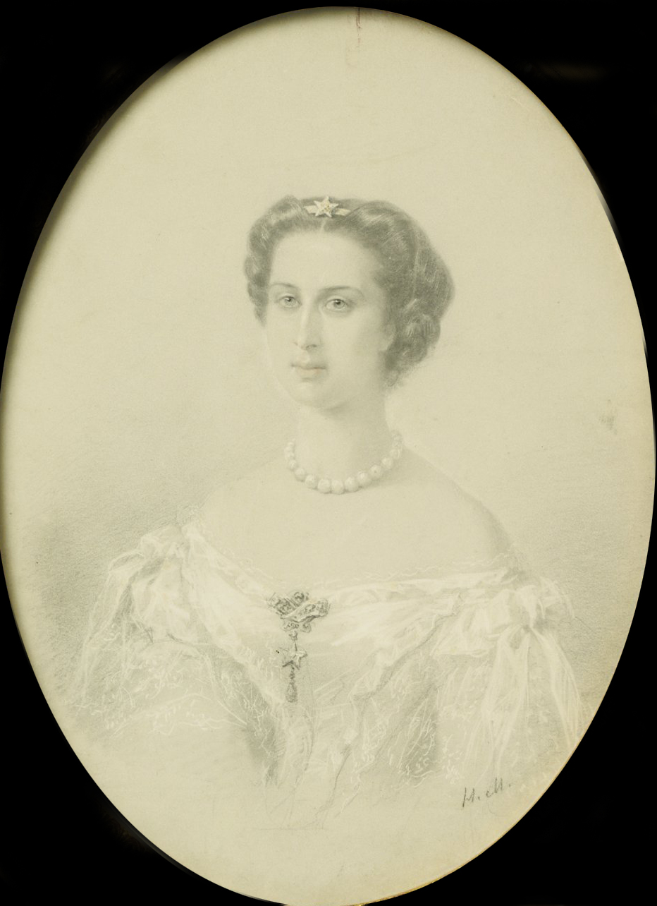 Portrait of Grand Duchess Alexandra Iosifovna Made by: Makukhina, Nataliia